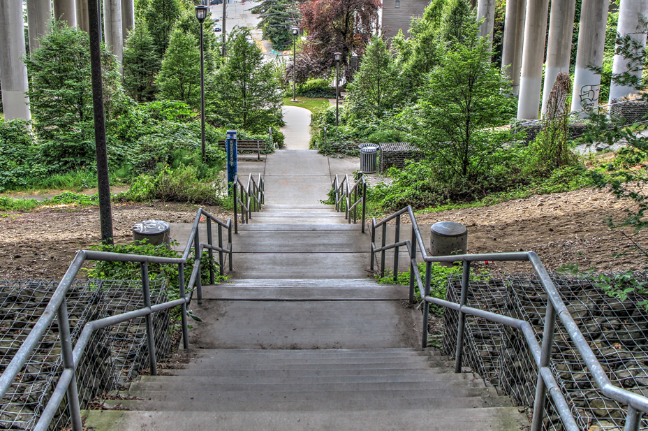 Howe Street Stairs (looking down) as they pass under the I-5 Colonnade in Seattle, United States in June 2016. (HDR photo)